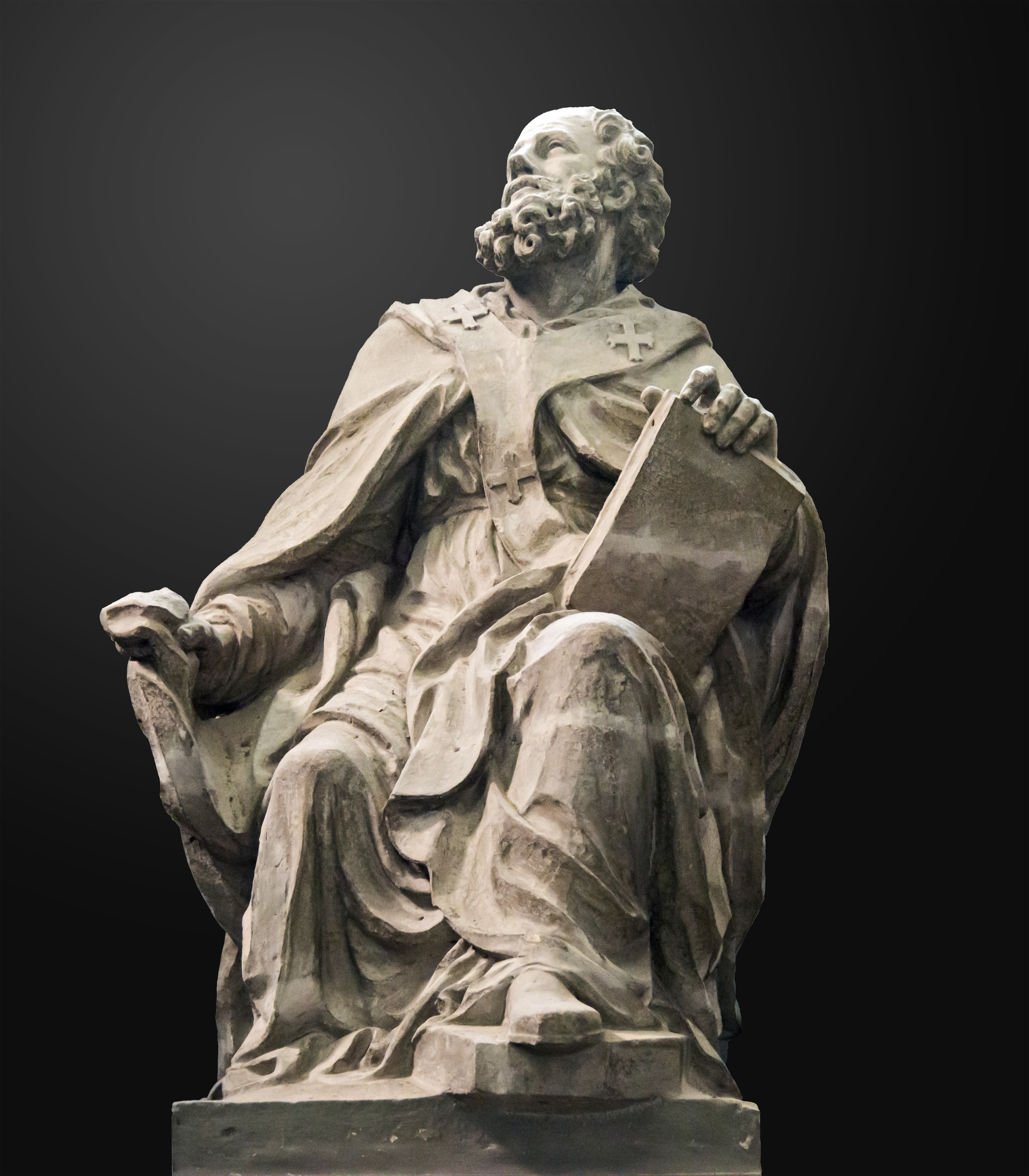 Montauban Cathedral, Tarn et Garonne, France - Augustine of Hippo by Marc Arcis. Monumental statue in limestone ordered in 1715. Absidial chapel on the left. Dimensions : 241x143cm